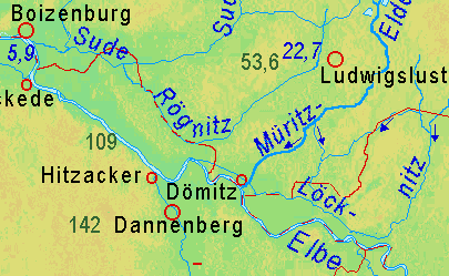 Part of Physical map of Mecklenburg-Vorpommern: Dark green figures = soil above sea level in meters dark blue figures = water level above sea level in meters dark blue arrows = direction of water flow lilac = water bodies crossing divides